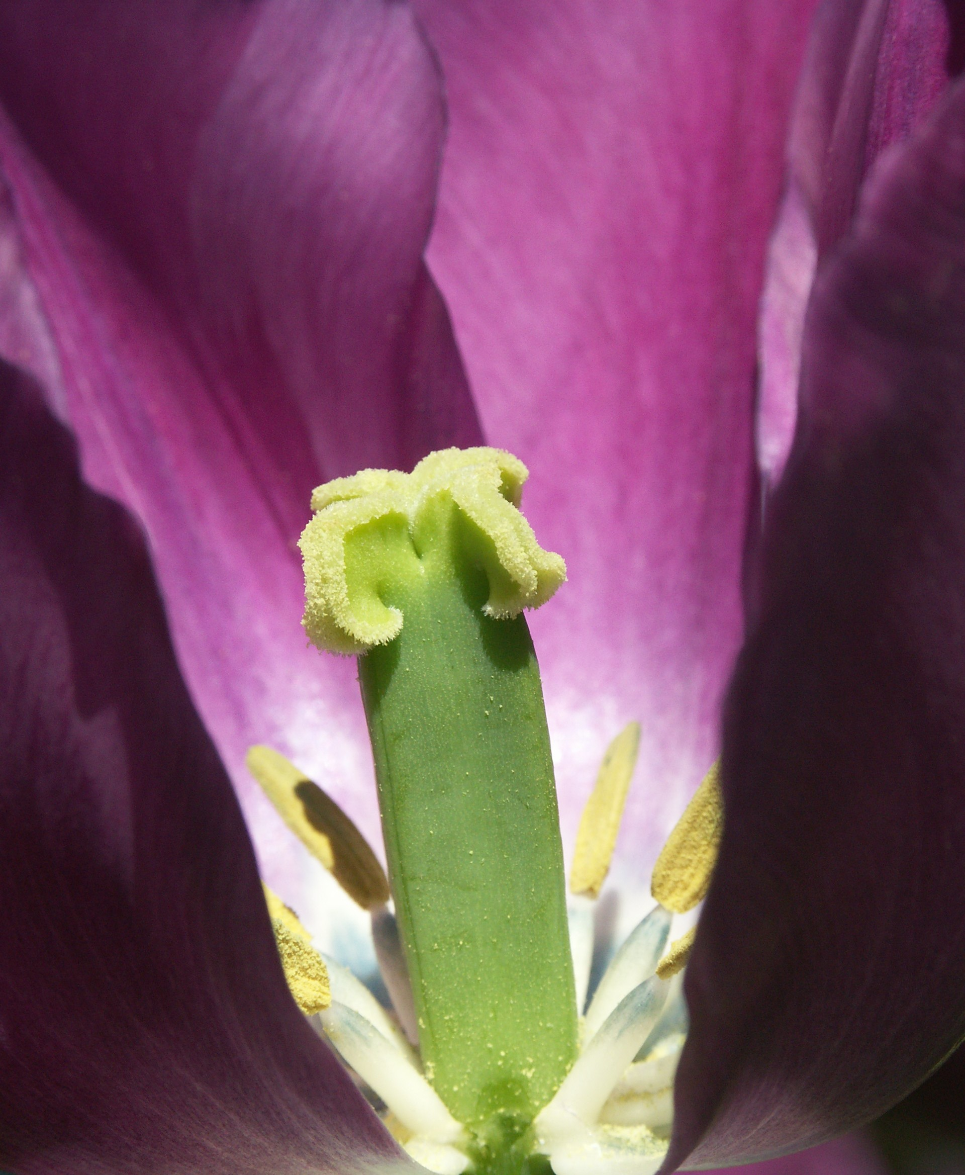 Tulipa flower inside